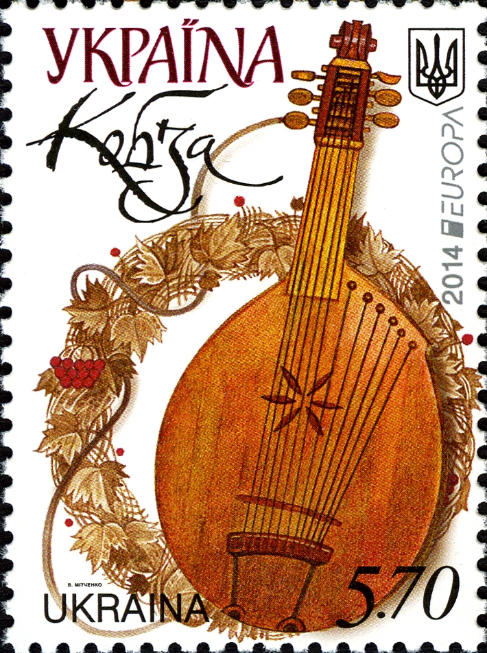 Stamp of Ukraine, 2014